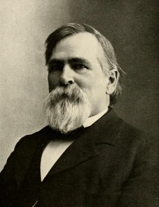 Horace L. Moore, Kansas Congressman